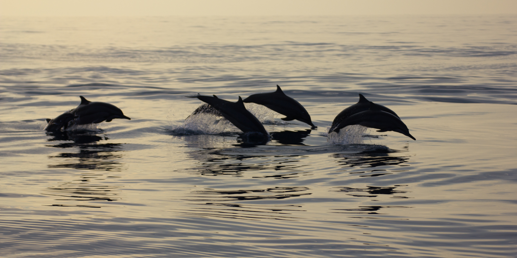 How many dolphins you see ?